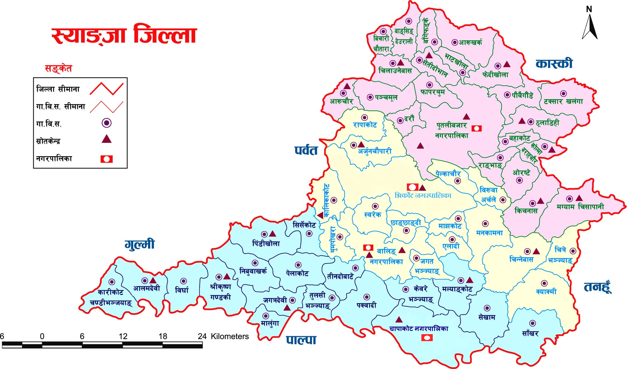 Map of all Village Development Committees in Syangja District